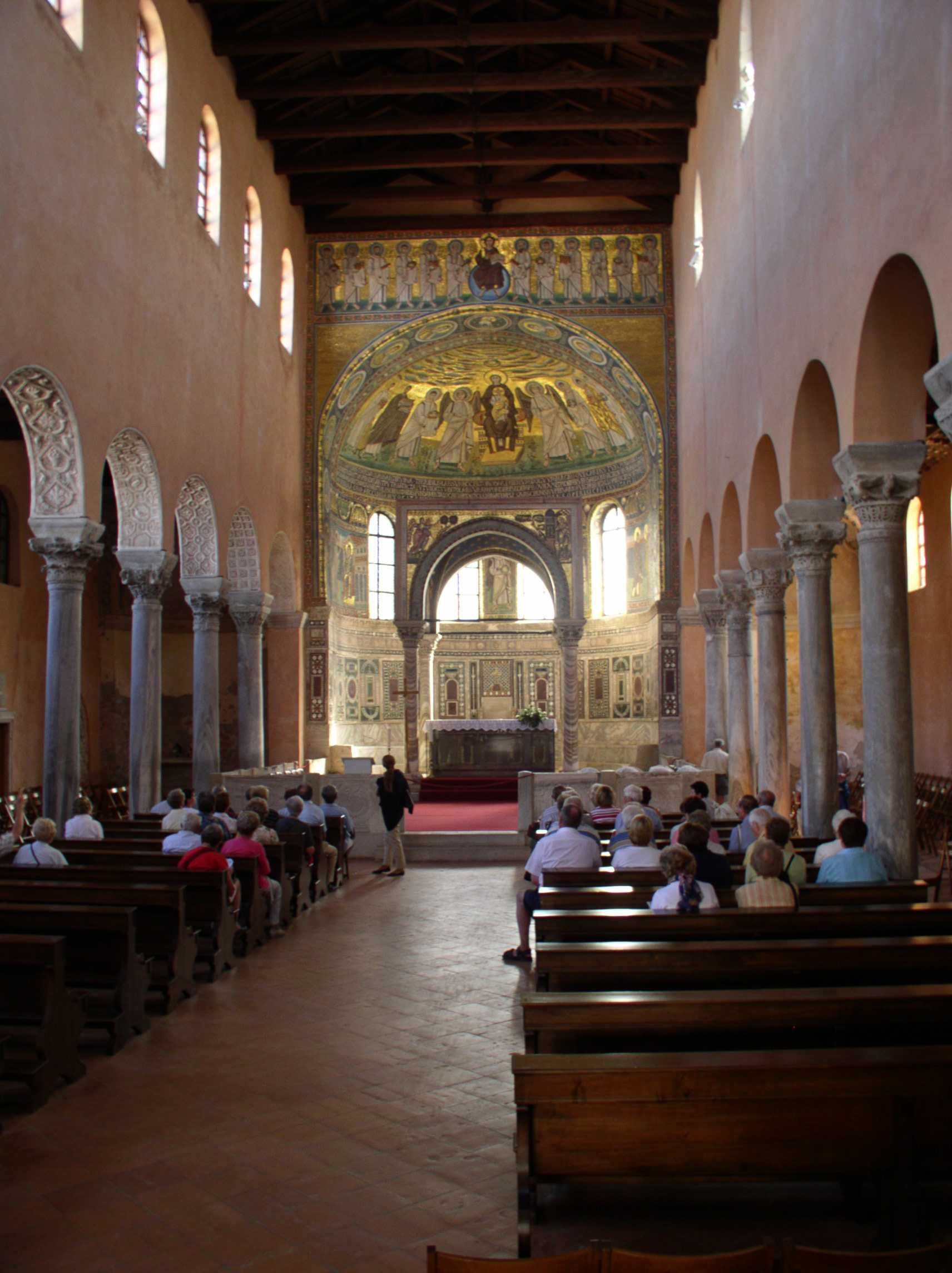 Interior view of the Euphrasius Basilica Porec, Croatia